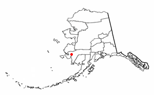 Adapted from Wikipedia's AK borough maps by Seth Ilys.